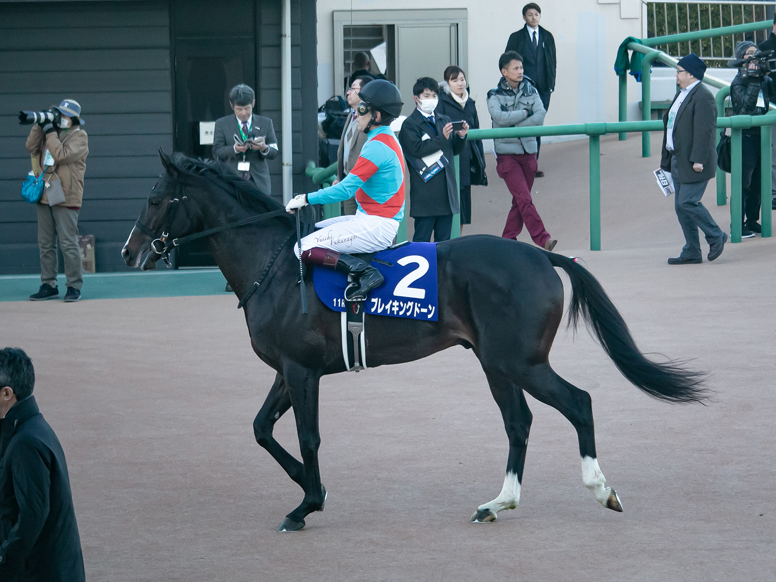 Breaking Dawn(JPN), Racehorse of Japan.